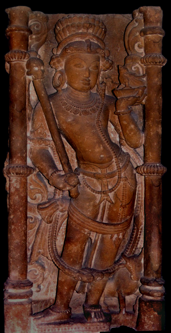 Shiva Lakulisha, Gupta Art, Indian National Museum, New Delhi.